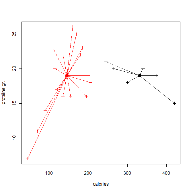 Clustering with the two first variables on nutrients dataset available on Koln university site ([2] with the help of Vincent Zoonekynd's guide on "Statistics with R" ([3])